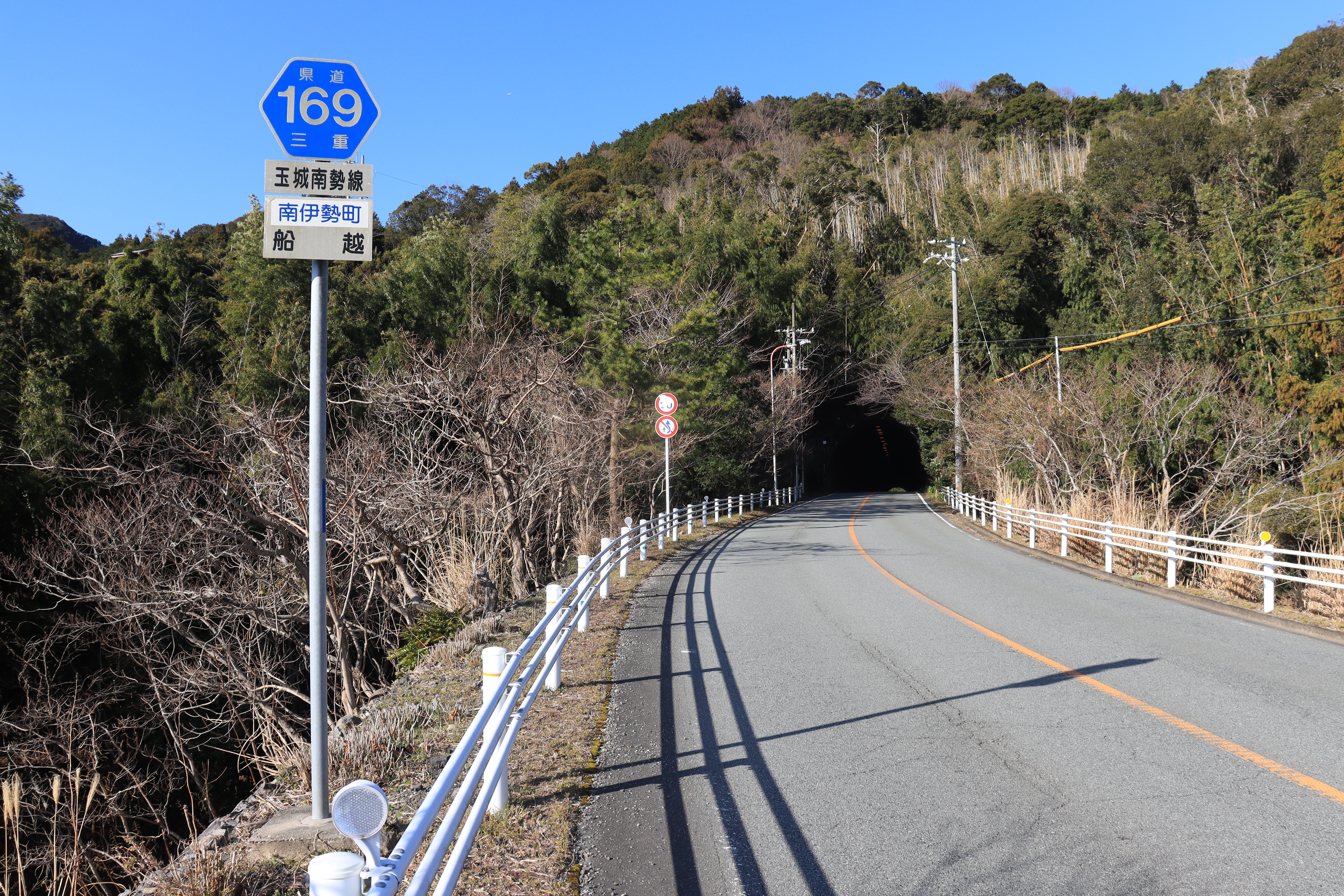 Mie Prefectural Road Route 169 in Funakoshi, Minamiise, Mie Prefecture, Japan.